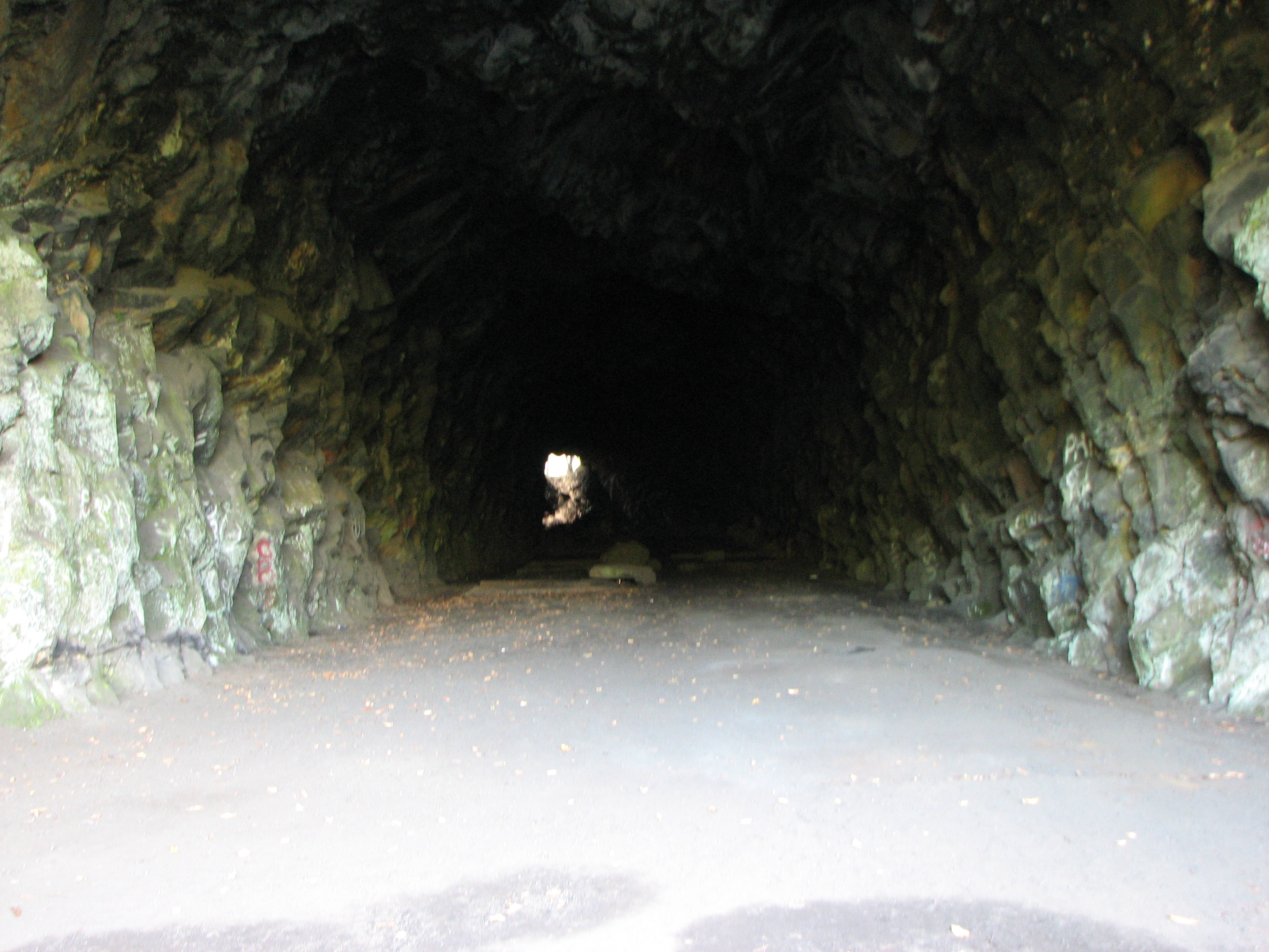 Looking southwest through Turn Hole Tunnel at Glen Onoko, in Lehigh Gorge State Park. Ties from both tracks and rockfall from the ceiling are visible.